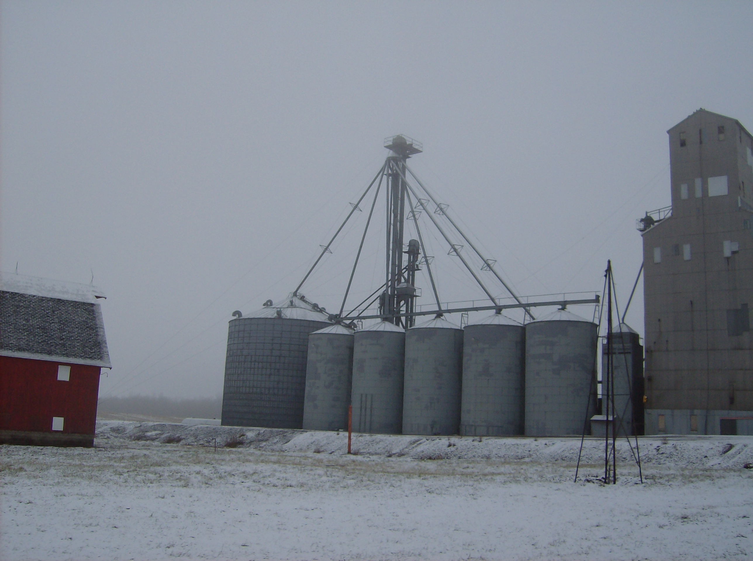 Grain elevator in western Sedalia, an unincorporated community in northern Owen Township, Clinton County, Indiana, United States. Picture taken northward from State Road 26.